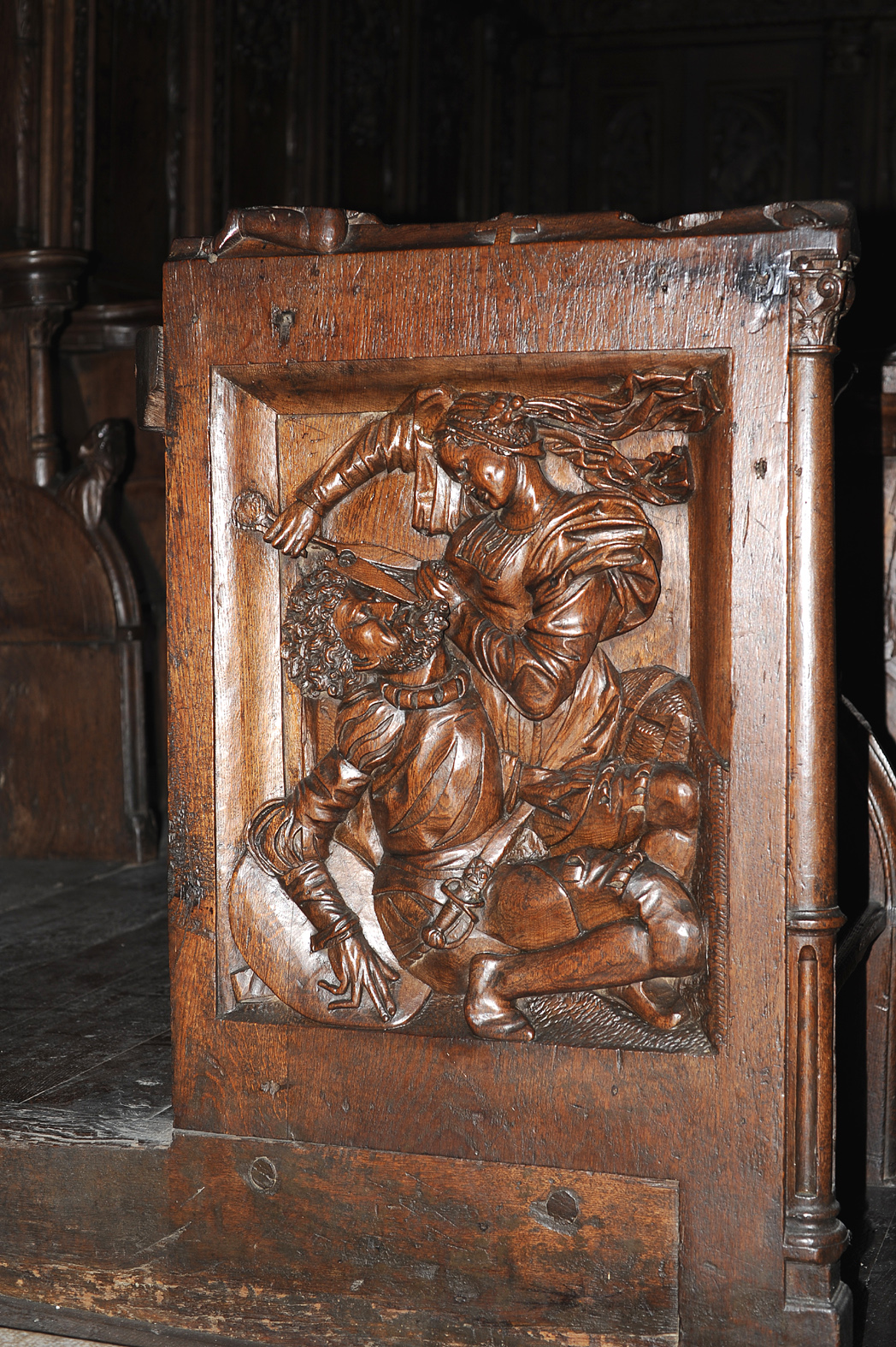 Church choir stalls, Samson and Delilah; Montbenoît, France.